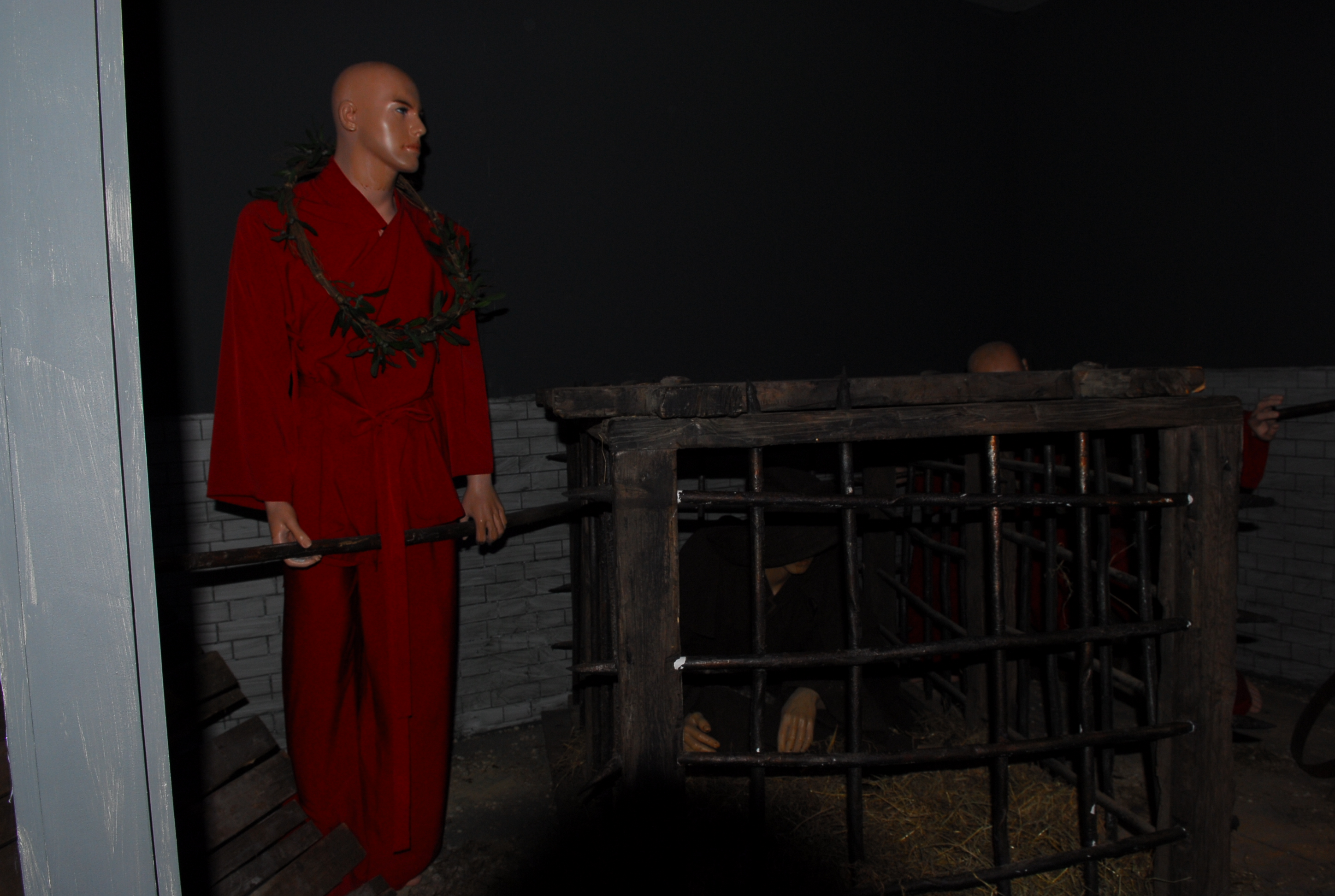 Tooth and claw Doctor Who Experience